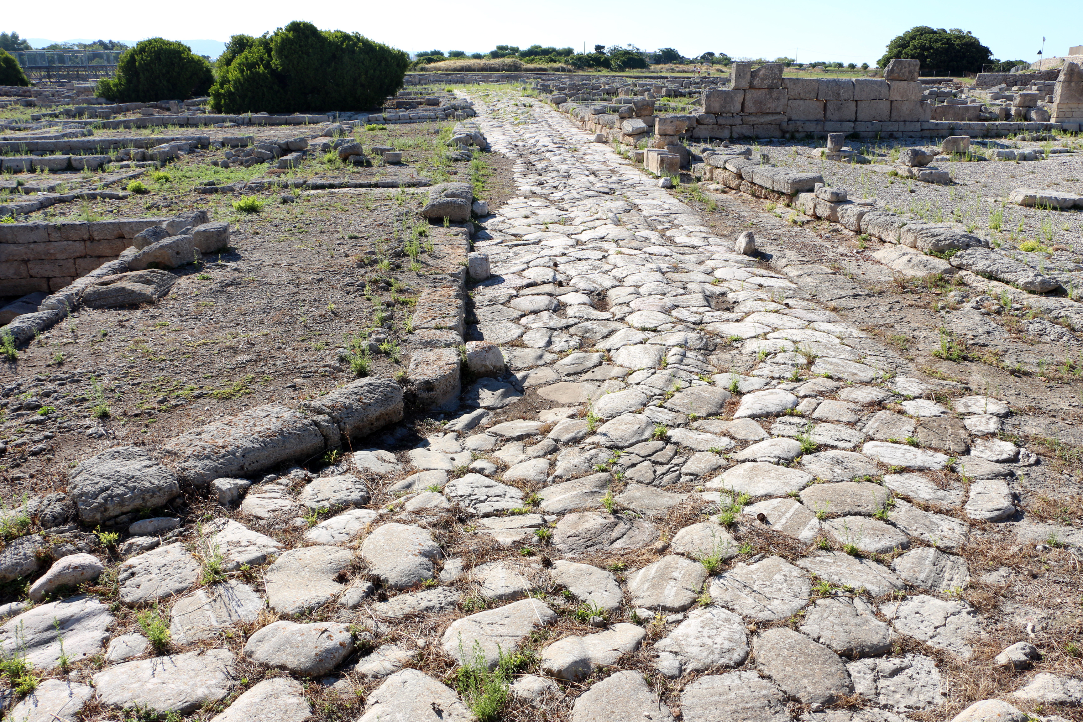 Egnazia